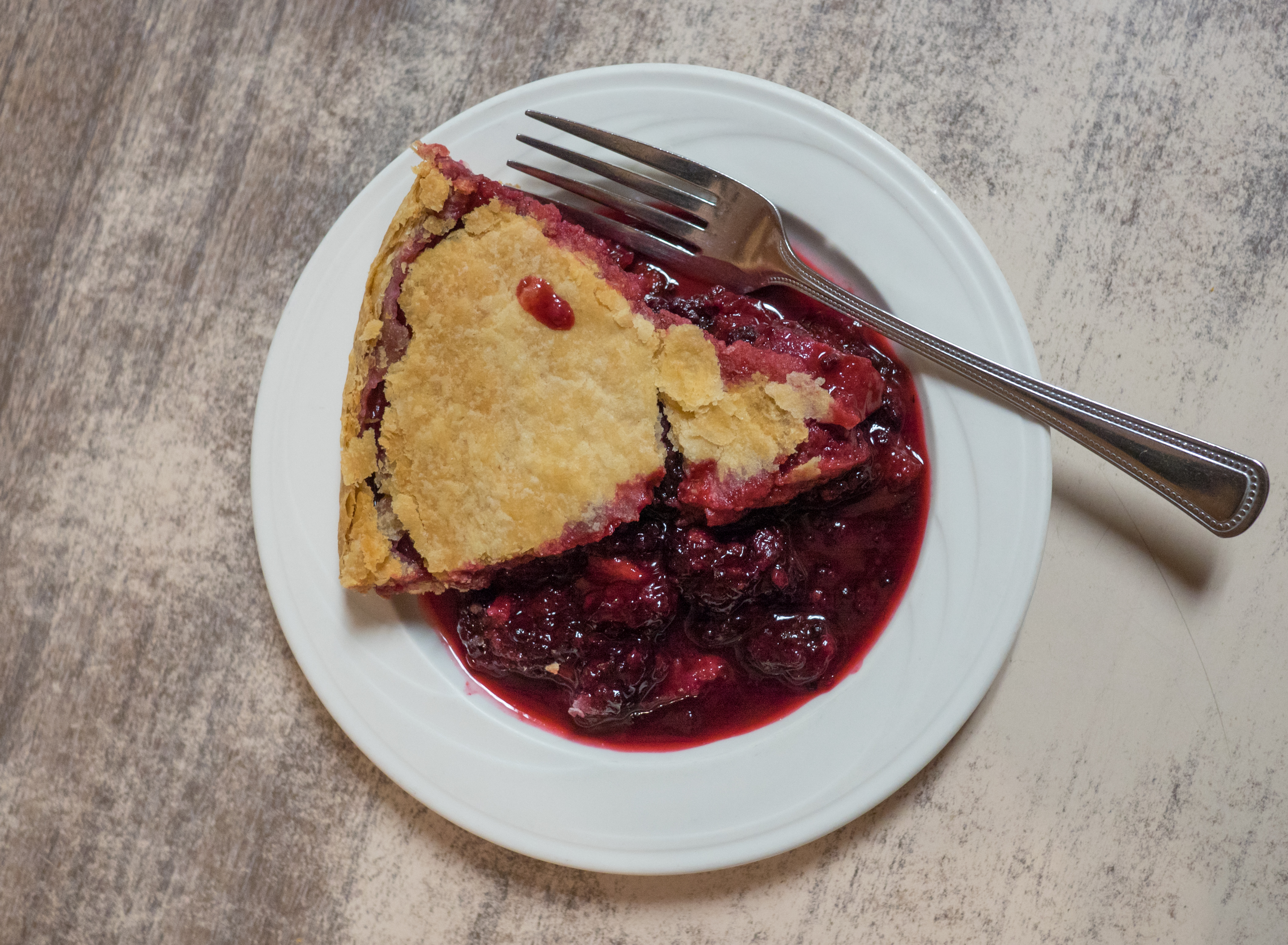 Olalliebery pie at Duarte's Tavern in Pescadero, California. It was out of season, so it was made with frozen berries.